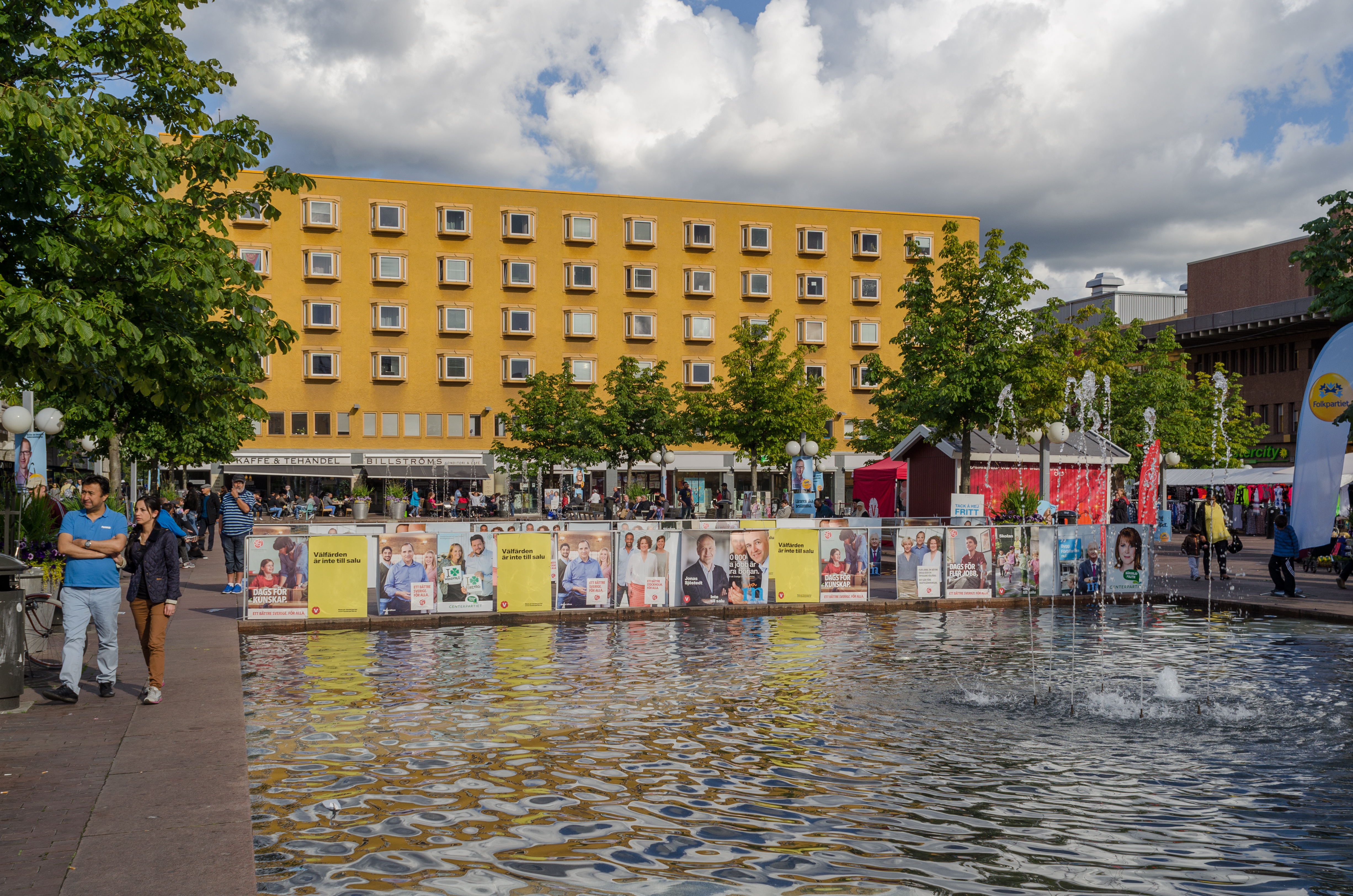 Skärholmentorget (square). Skärholmen, Stockholm.